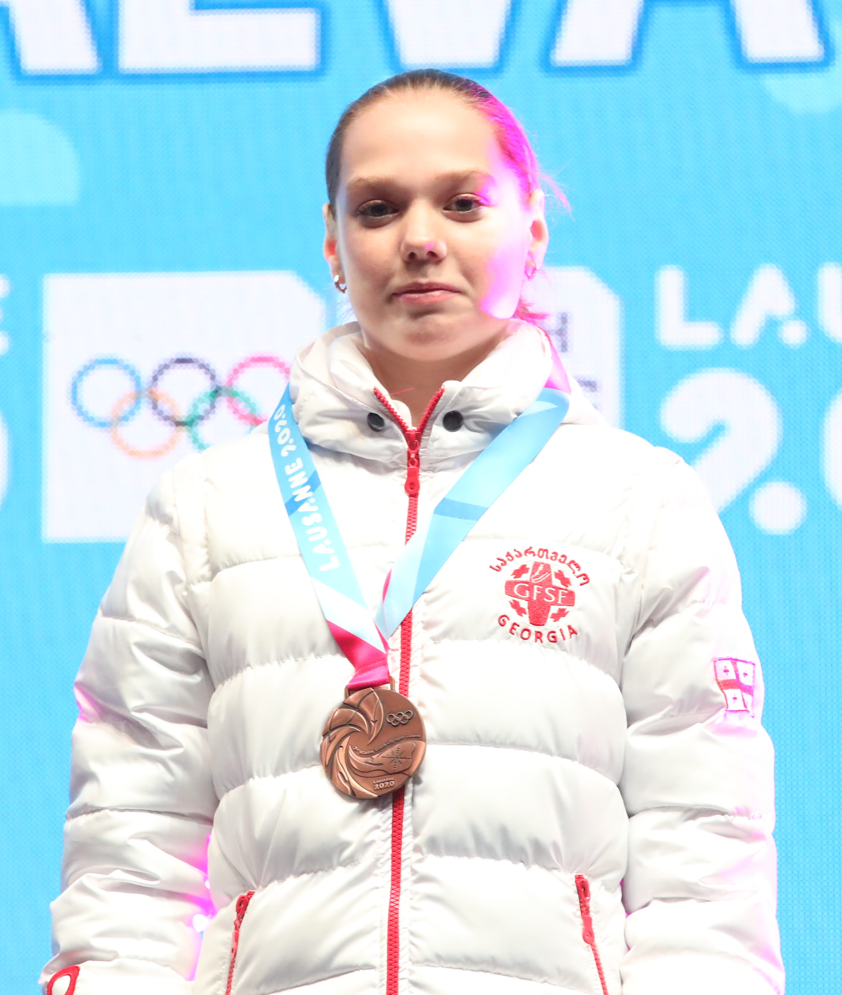 Medal Ceremony Day 3, 2020 Winter Youth Olympics in Lausanne